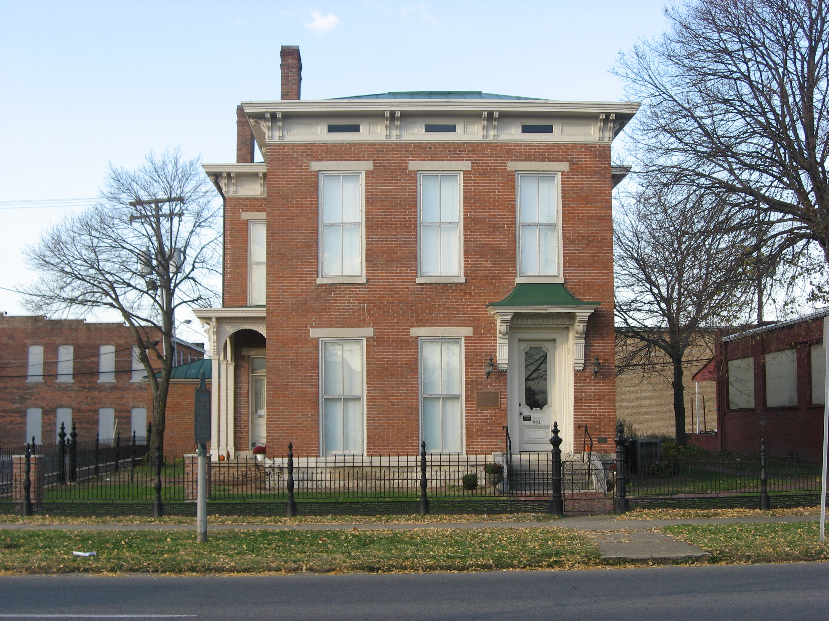 Front of the McEwen-Samuels-Marr House, located at 524 E. Third Street in Columbus, Indiana, United States. Built in 1864, the house — now the Bartholomew County Historical Museum — is listed on the National Register of Historic Places.